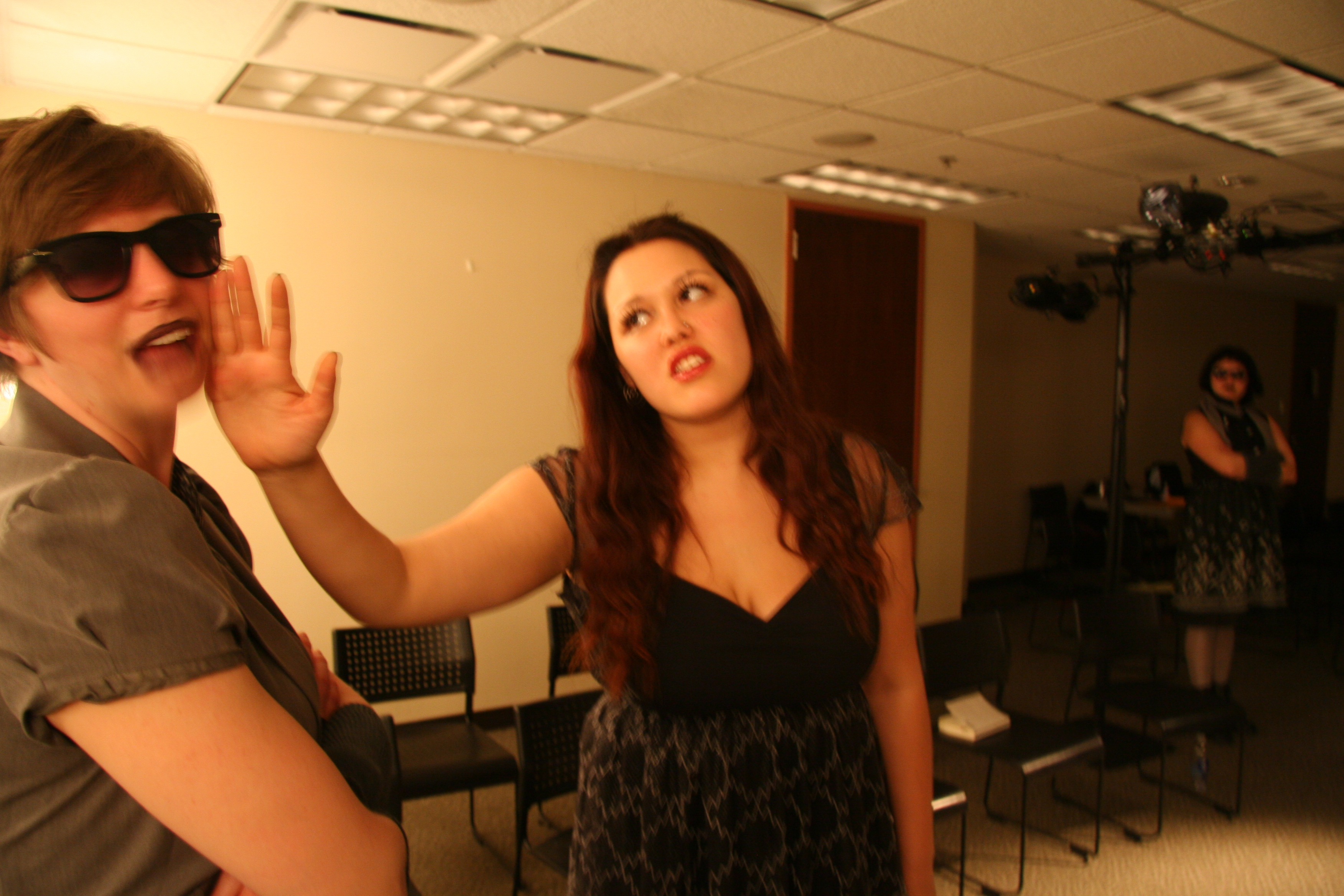 Eurydice (Lynne Lee) tries to hit Loud Stone (Alexis Randolph), in a Shimer College performance of Sarah Ruhl's Eurydice in April 2013. Surrounding the father and daughter are the three stones: Big Stone, Small Stone, and Loud Stone. The performance was held in the Cinderella Lounge at Shimer, on the second floor of the building at 3424 S. State St. in Chicago.